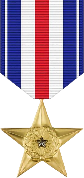 Taken from